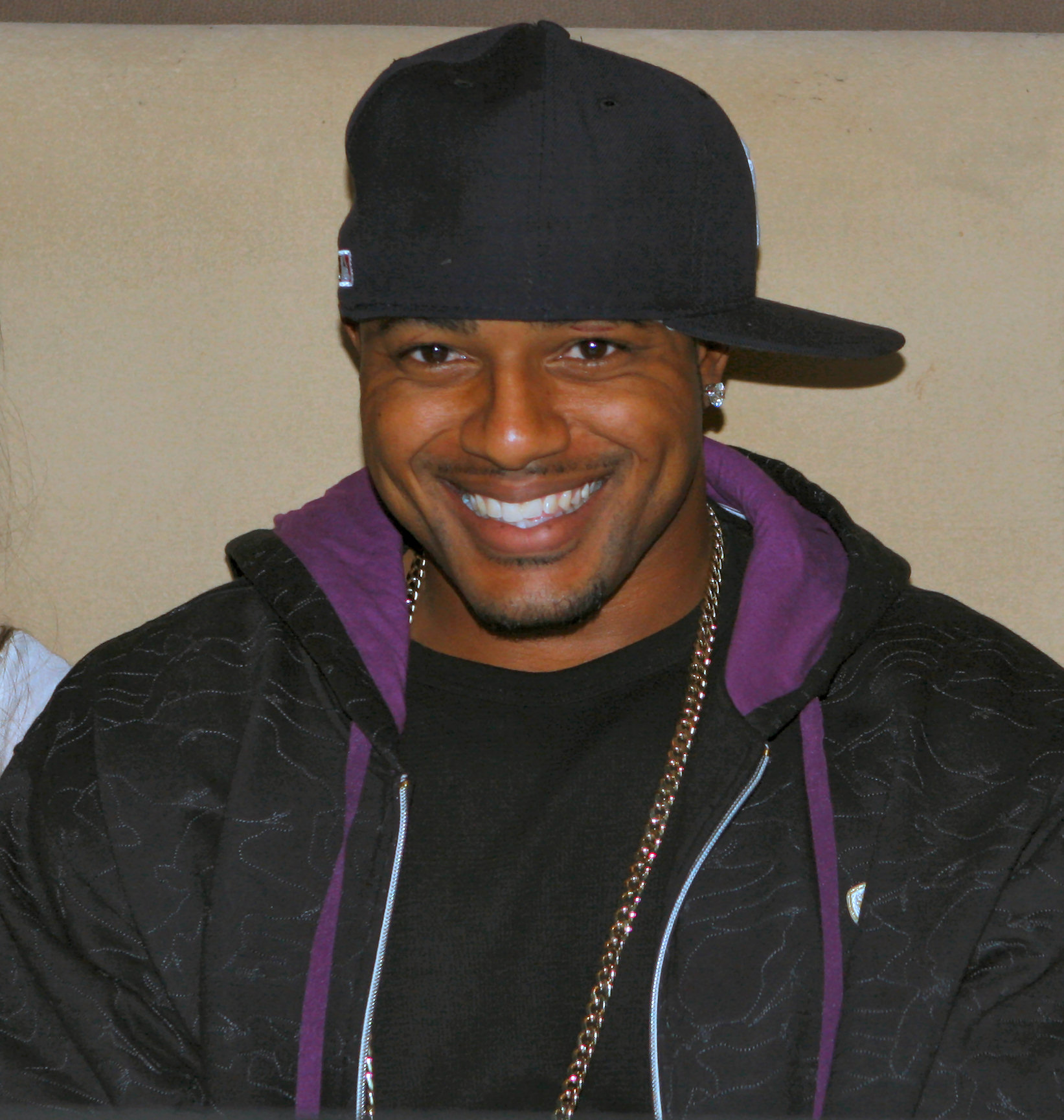 Larry Johnson of the Kansas City Chiefs at the Xbox Fall 2006 Showcase in New York